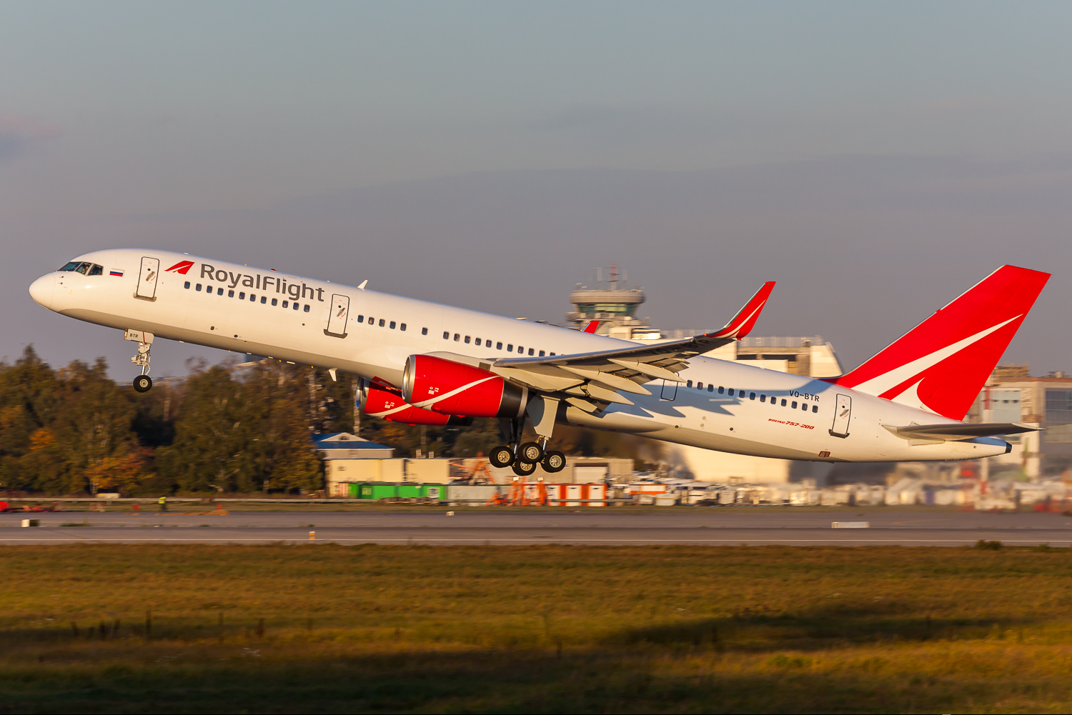 Royal Flight Boeing 757-200 (VQ-BTR) taking off at Domodedovo